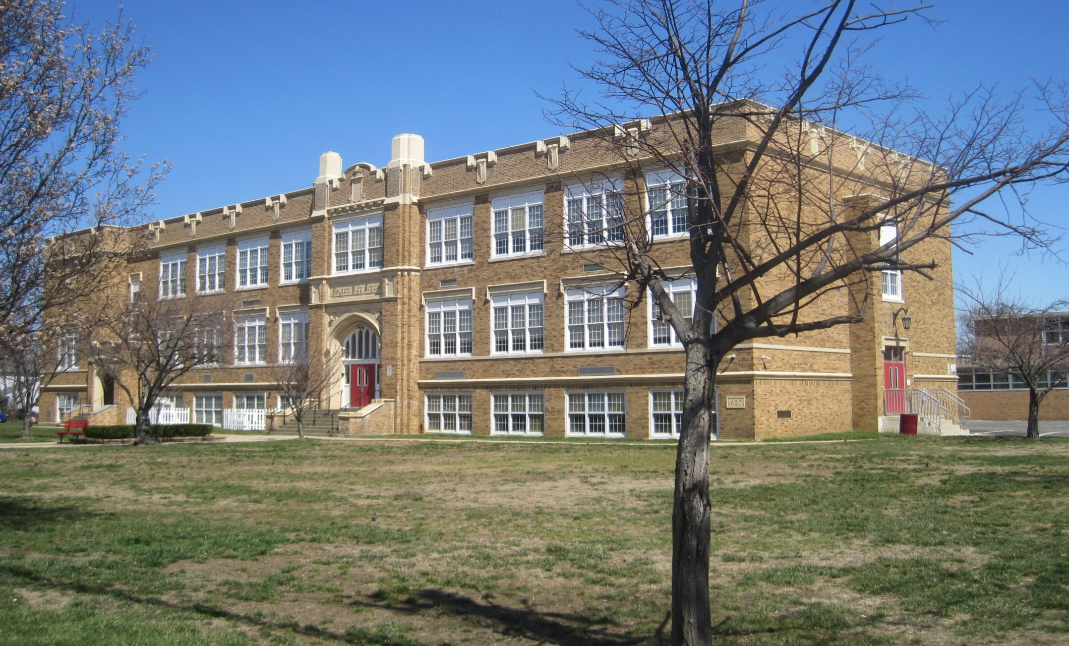 Photo showing the front of Keyport High School in Keyport, New Jersey. The school is located on Broad Street (County Route 4).